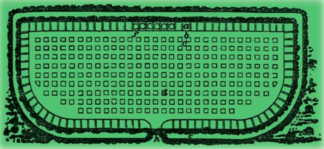 This shows the Hortus Gramineus, or grass garden, at Woburn Abbey in 1817 which was the site of the first ecological experiment that was mentioned by Charles Darwin in the Origin of Species. See: Hector, A. & Hooper, R. (2002). Darwin and the First Ecological Experiment. Science, 295, 639-640.